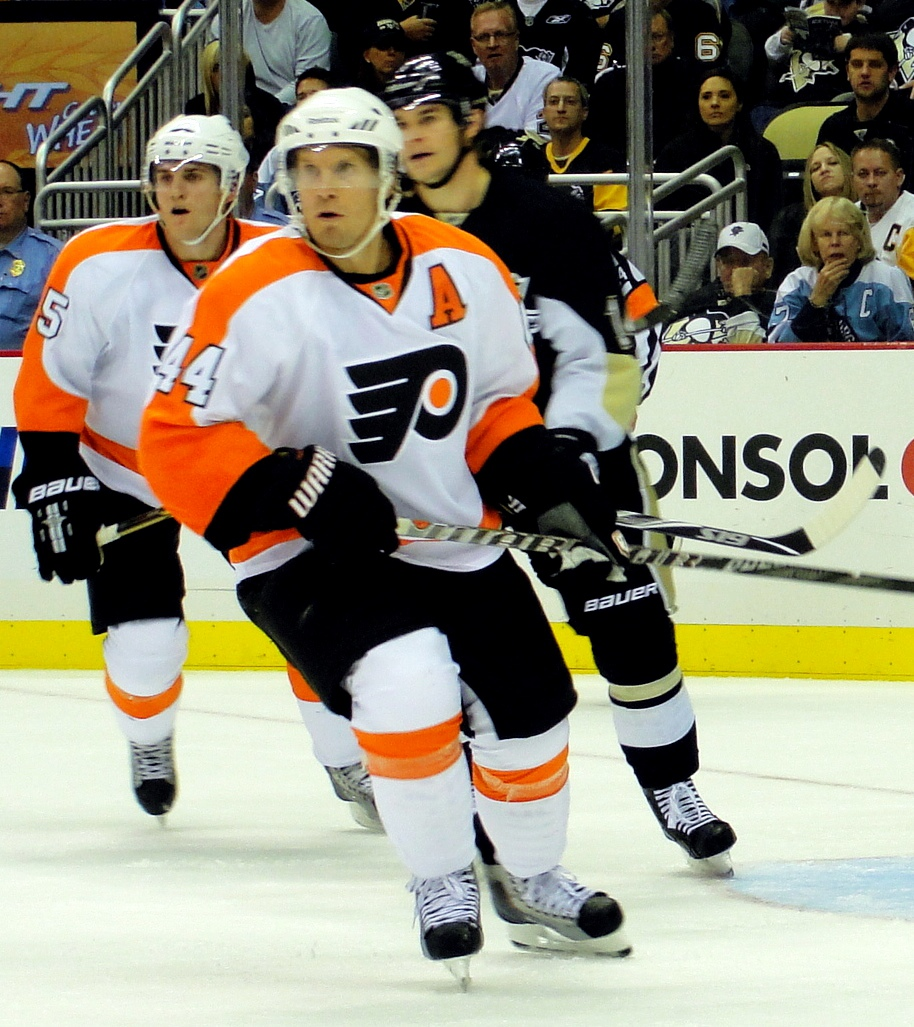 Philadelphia Flyers defensemen Kimmo Timonen and Matt Carle control traffic in front of their net in a game against the Pittsburgh Penguins, October 7, 2010 at Consol Energy Center in Pittsburgh, PA.